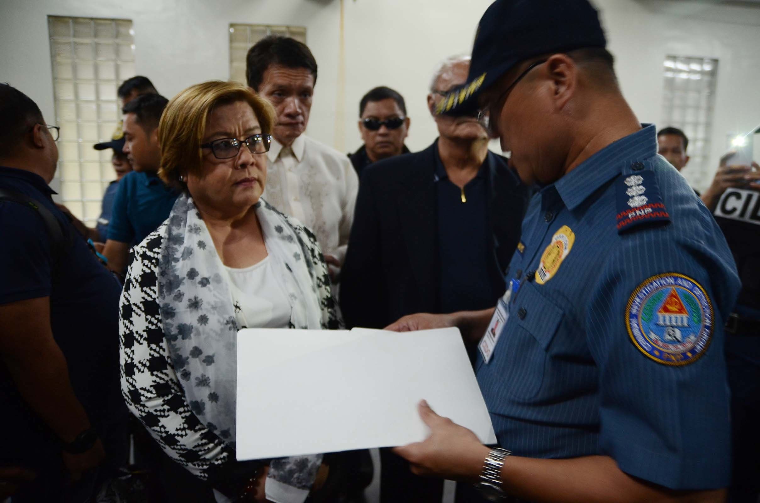 Senator Leila De Lima listens to a PNP-CIDG officer who served the warrant for her arrest at the Senate grounds in Pasay City Friday morning (Feb. 24, 2017). (PNA photo by Avito C. Dalan)